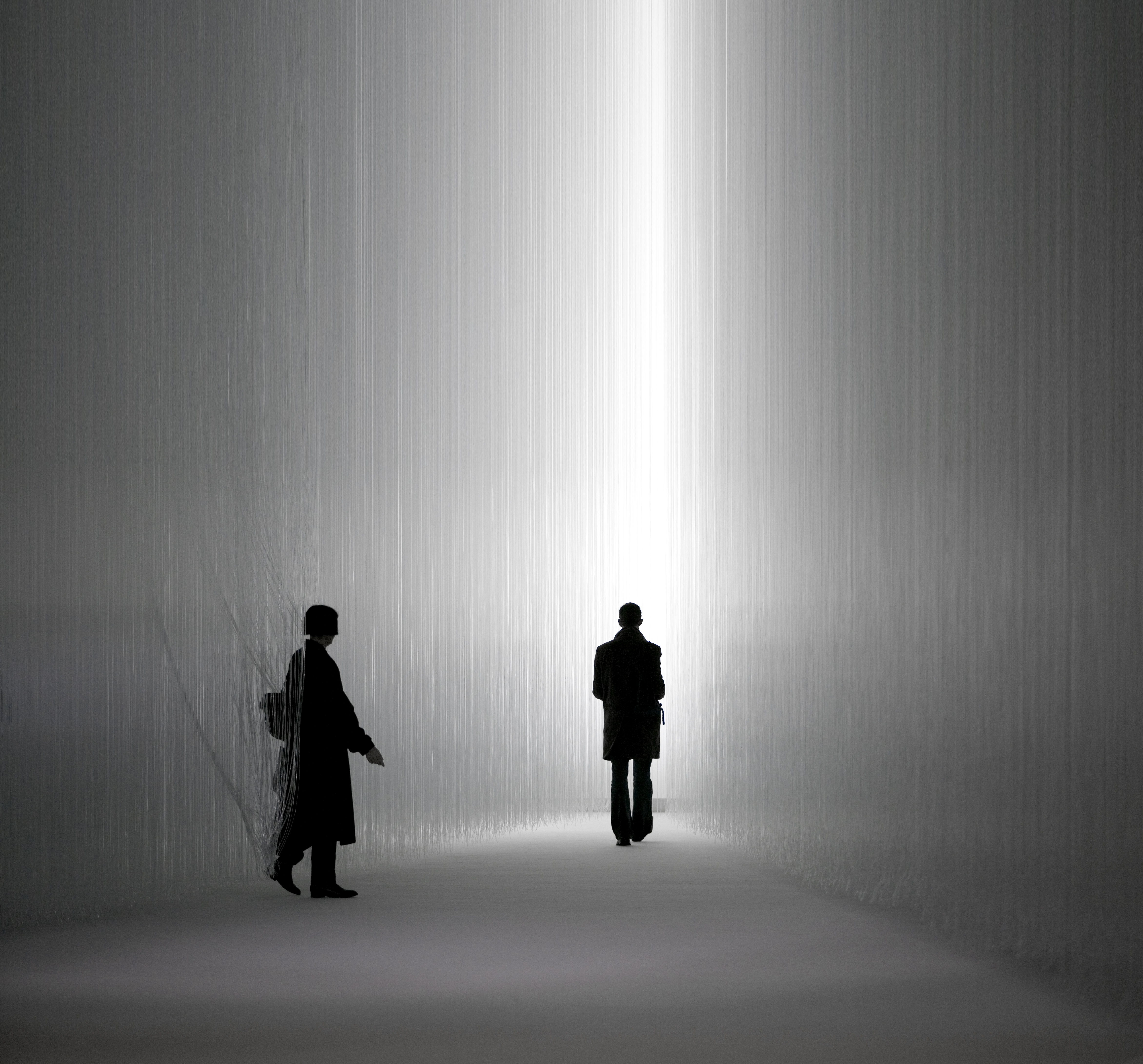 LEXUS time gate 2006 by Tokujin Yoshioka